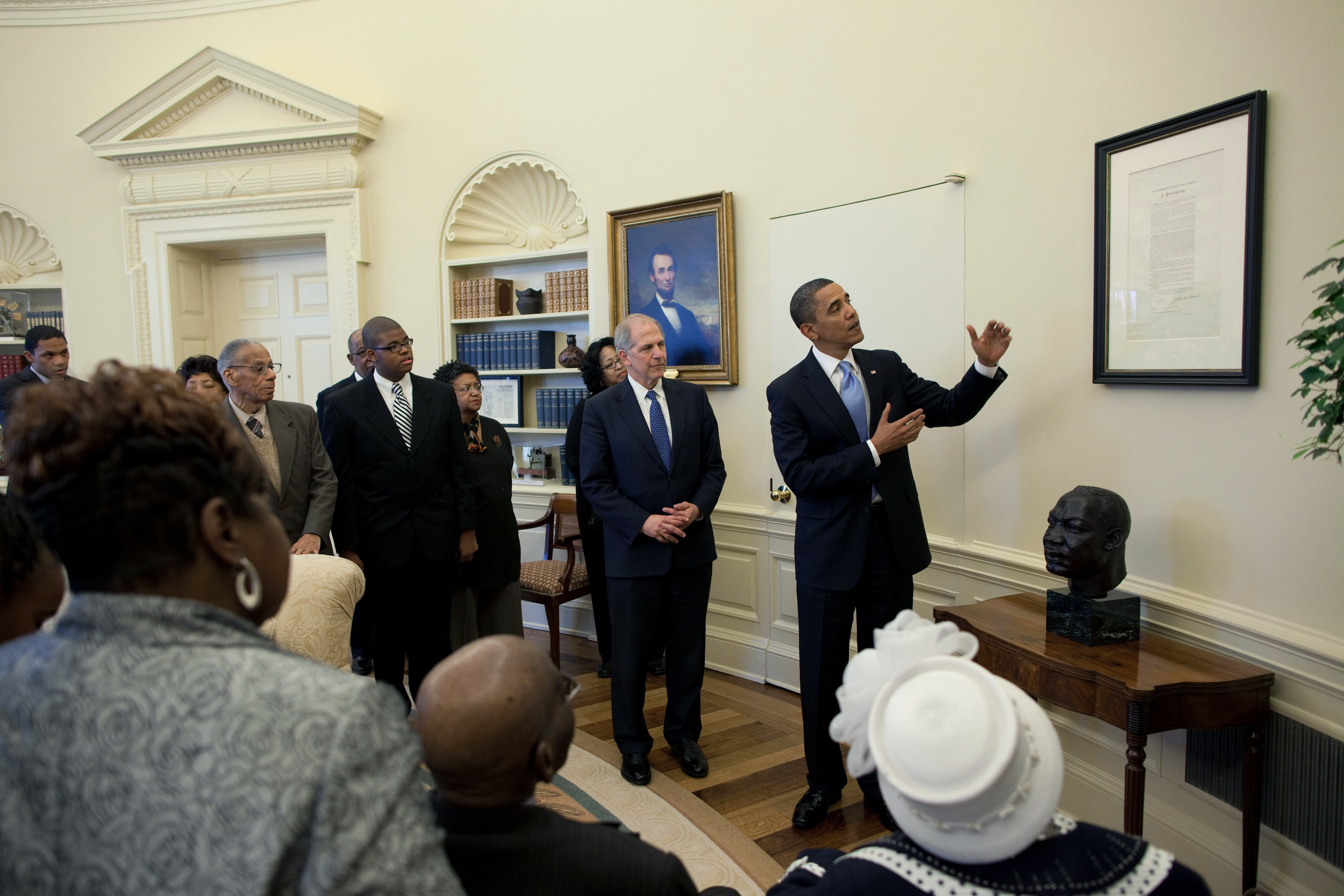 President Barack Obama views the Emancipation Proclamation with a small group of African American seniors, their grandchildren and some children from the Washington, D.C. area, in the Oval Office, Jan. 18, 2010. This copy of the Emancipation Proclamation, which is on loan from the Smithsonian Museum of American History, was hung on the wall of the Oval Office today and will be exhibited for six months, before being moved to the Lincoln Bedroom where the original Proclamation was signed by Abraham Lincoln on Jan. 1, 1863.